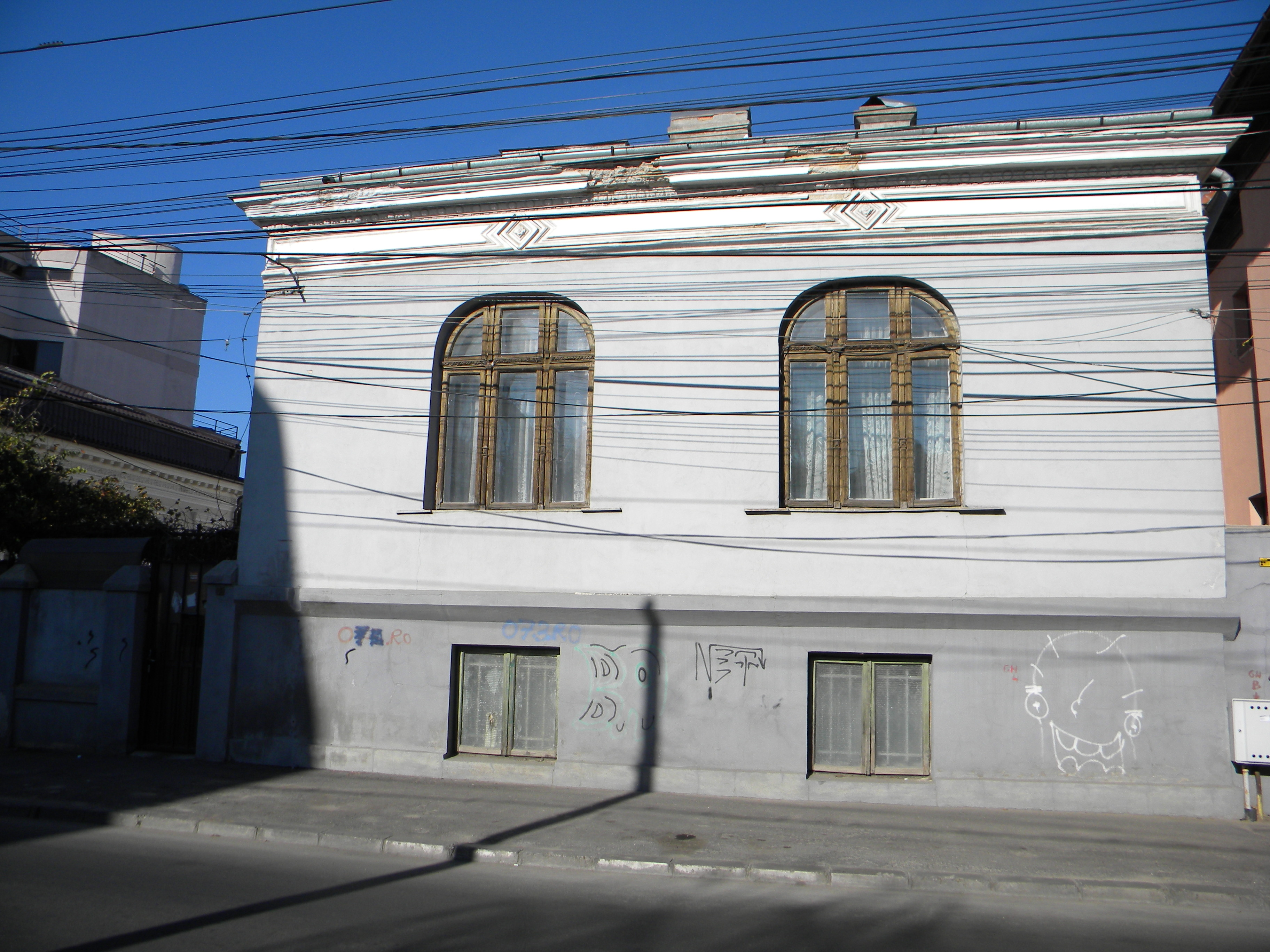 Bucuresti, Romania, Str. Matei Voievod nr. 33, sect. 2, (B-II-m-B-19167) (2)